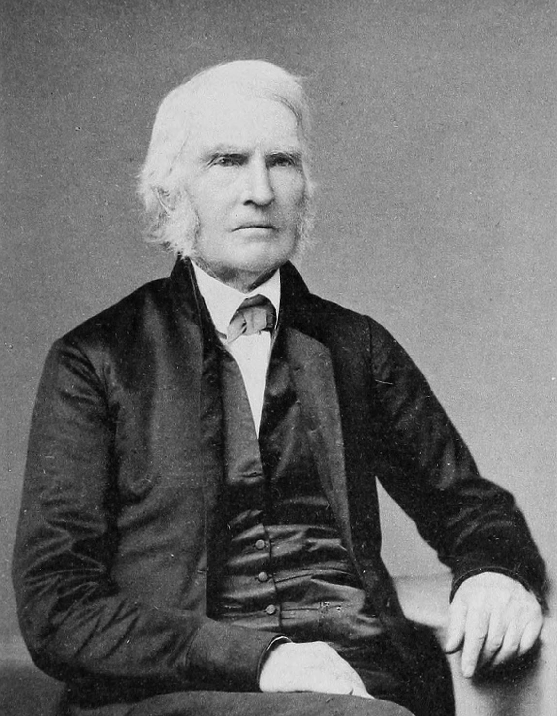 Picture of James Mott, husband of Lurcetia Mott the proponent of women's rights